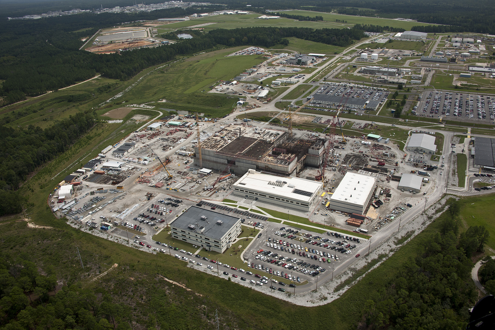 Aerial photography of SRS construction projects - September 2012: NNSA Mixed Oxide (MOX) construction site